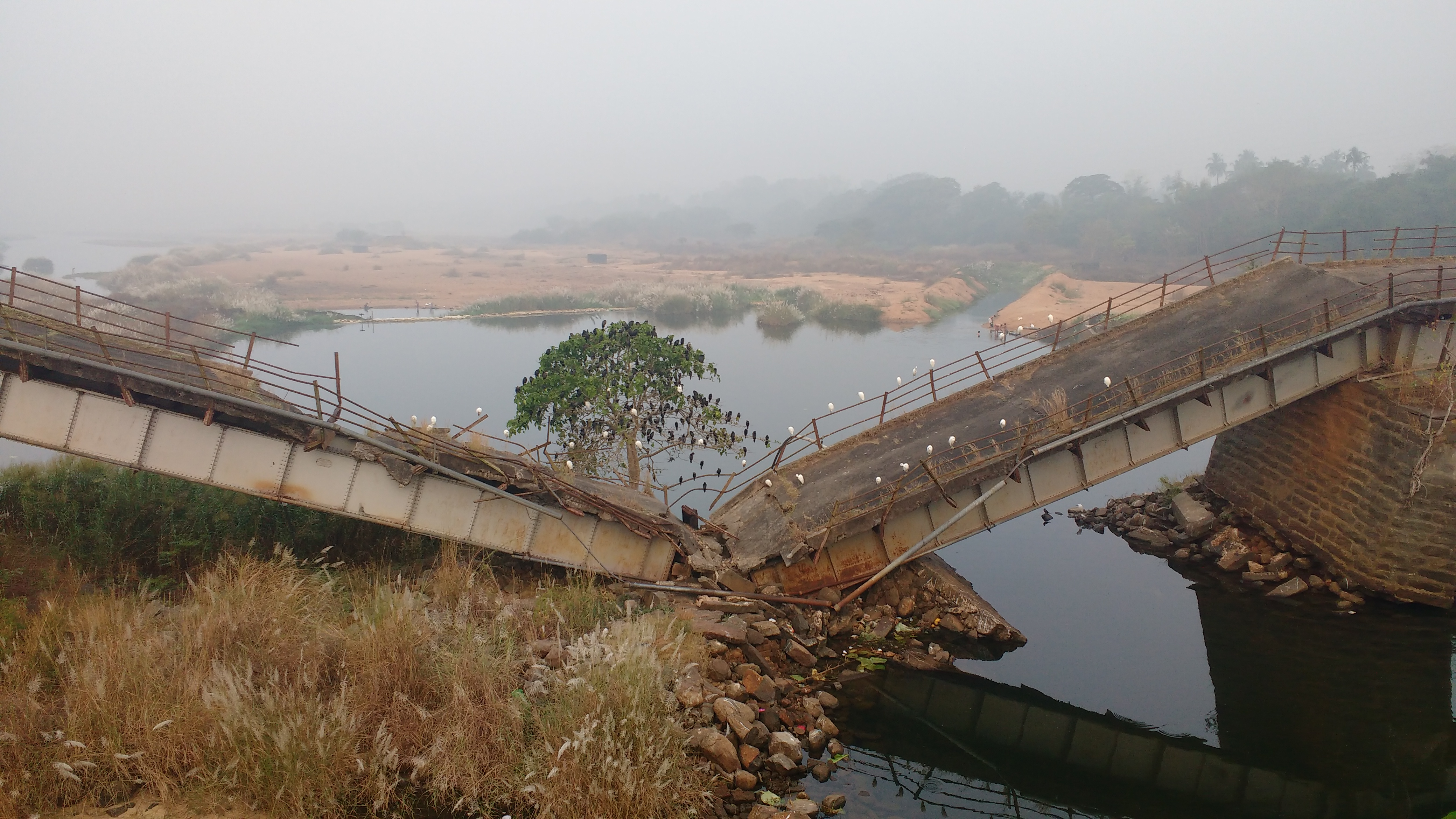 Broken bridge of Cherruthuruthi